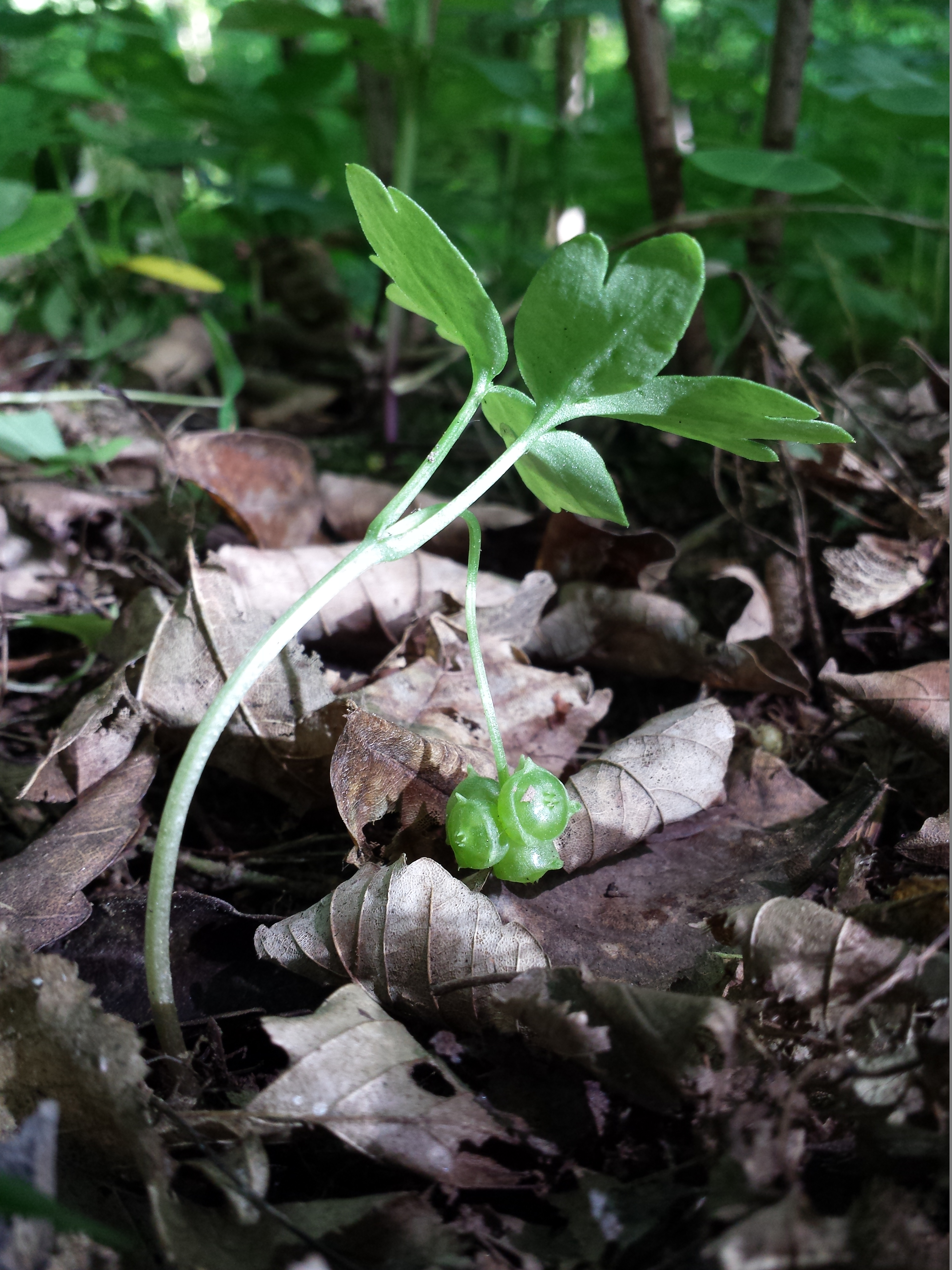 Habitus with unripe fruits Taxonym: Adoxa moschatellina ss Fischer et al. EfÖLS 2008 ISBN 978-3-85474-187-9 Location: Kreuttal, district Mistelbach, Lower Austria - ca. 200 m a.s.l. Habitat: wet aera within a dedicious forest